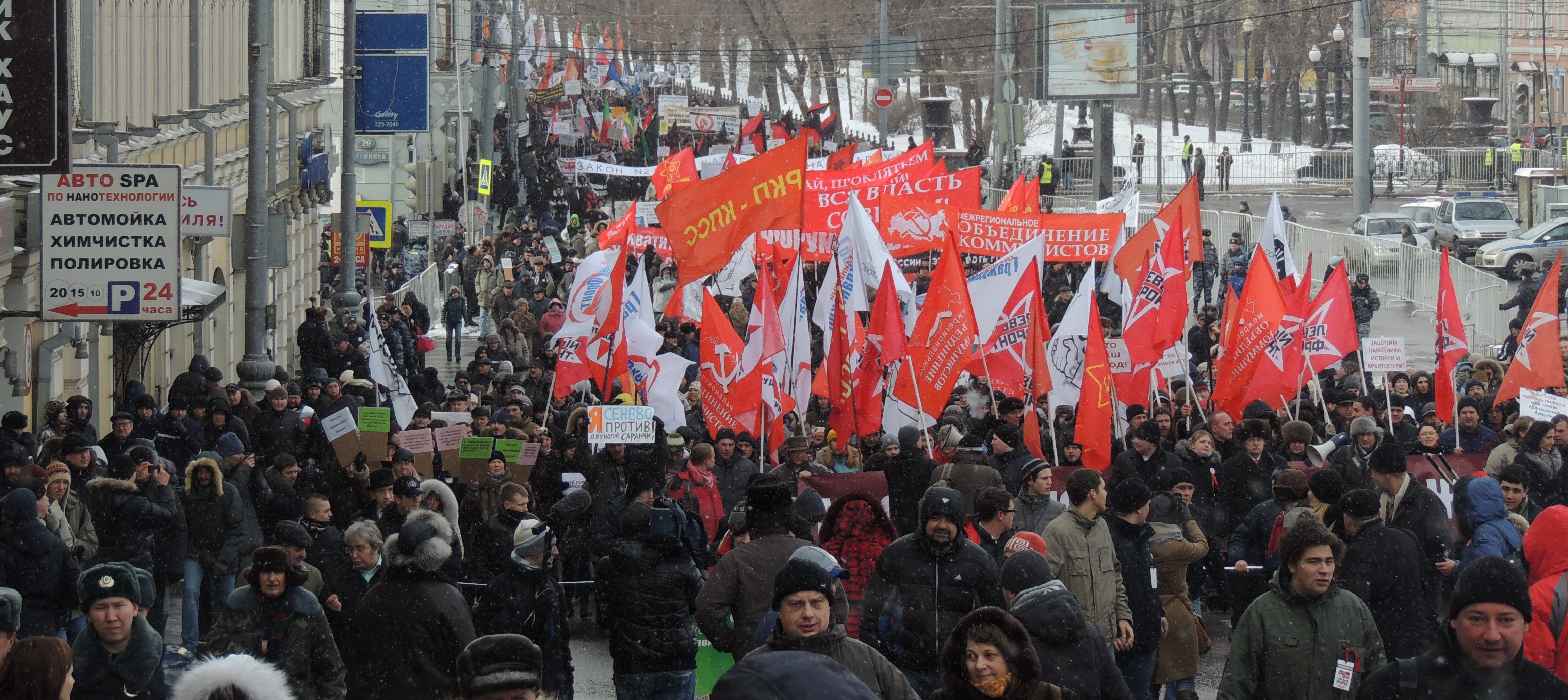 Moscow opposition rally "for the social rights of Muscovites" 2 March 2013, Trubnaya Square